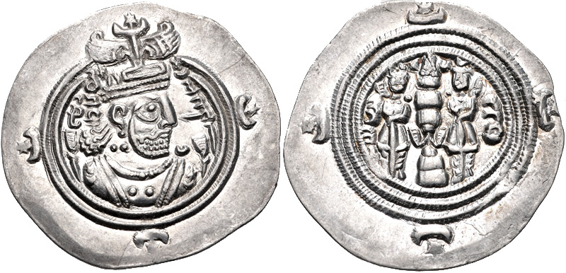 SASANIAN KINGS. Husrav (Khosrau) II. AD 591-628. AR Drachm (32mm, 3.81 g, 9h). AM (Āmul) mint. Dated RY 33 (AD 624). Crowned bust right / Fire altar with ribbons; flanked by two attendants; star and crescent flanking flames. SC Tehran 1641 var. (’pz in Pahlavi in outer margin); Sunrise –. Choice EF.